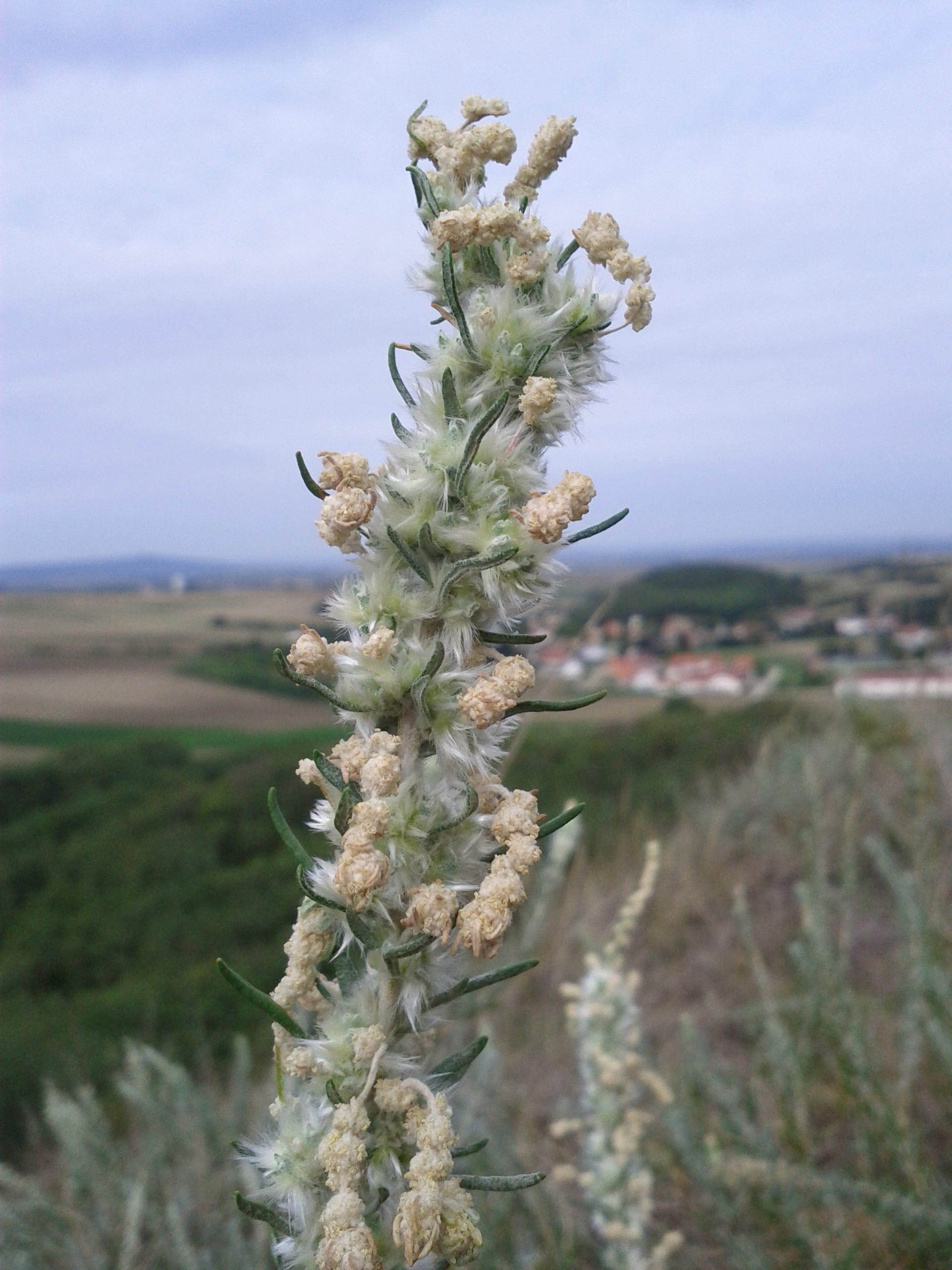 Inflorescence Taxonym: Krascheninnikovia ceratoides ss Fischer et al. EfÖLS 2008 ISBN 978-3-85474-187-9 Location: Natural monument Blauer Berg near Oberschoderlee, district Mistelbach, Lower Austria - ca. 280 m a.s.l. Habitat: dry grassland